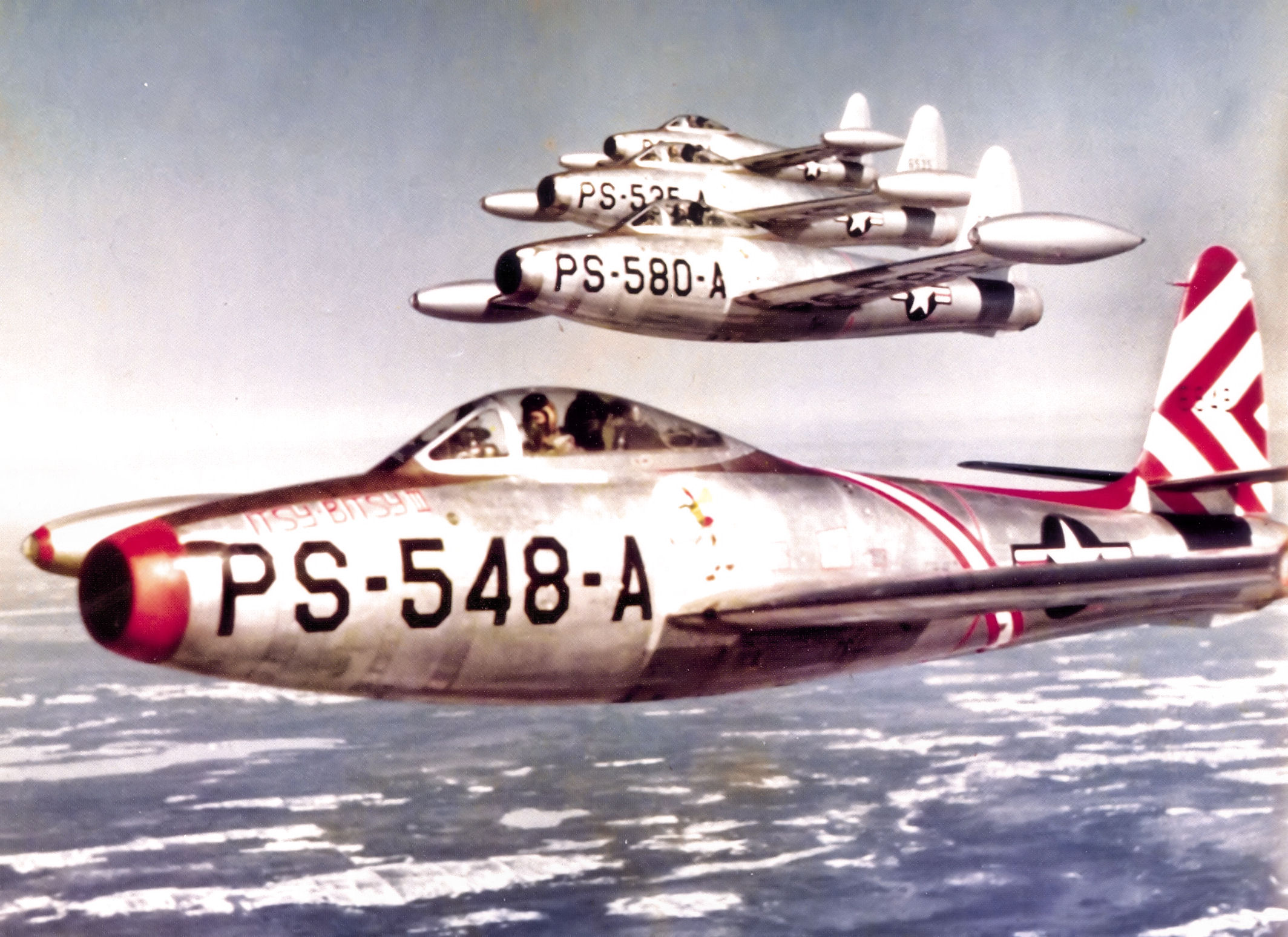 F-84B Thunderjets of the 49th Fighter Squadron in formation over Maine, 1948. Republic F-84B-21-RE Thunderjet 46-548 in foreground (Painted)